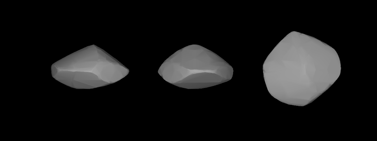 A three-dimensional model of 683 Lanzia that was computed using light curve inversion techniques.